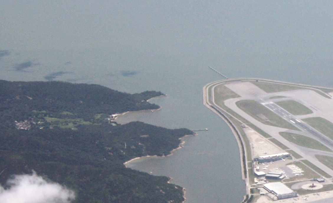 This photo was taken on Flight CA102, an A321-200 of Air China towards Beijing. Cropped version showing the two bays of Sha Lo Wan (top) and Hau Hok Wan (front), with a part of the Hong Kong International Airport platform on the right.